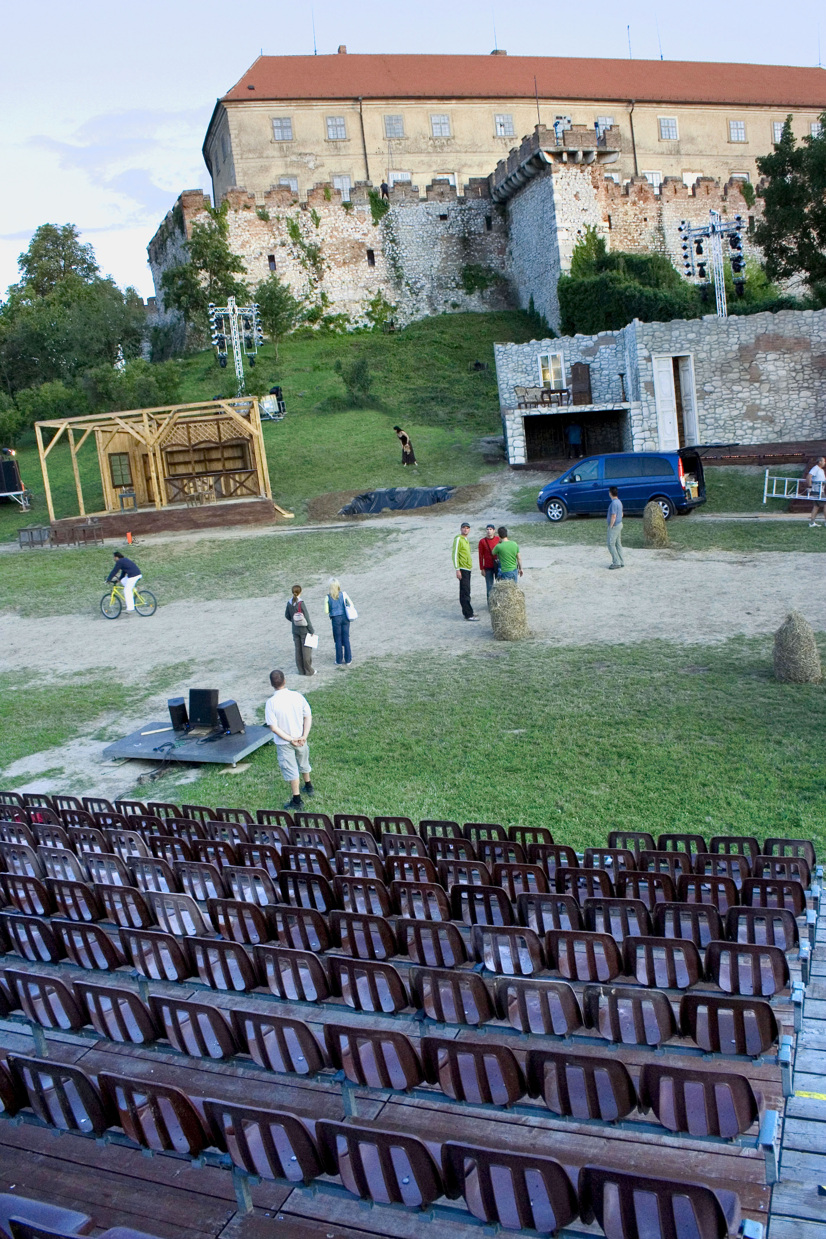 Tenkes-musical (rehearsal time), lower area of the Siklos Castle - 2009. Hungary